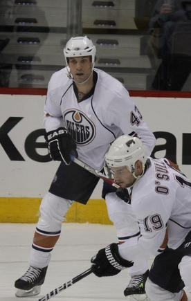 Jason Strudwick with Edmonton Oilers